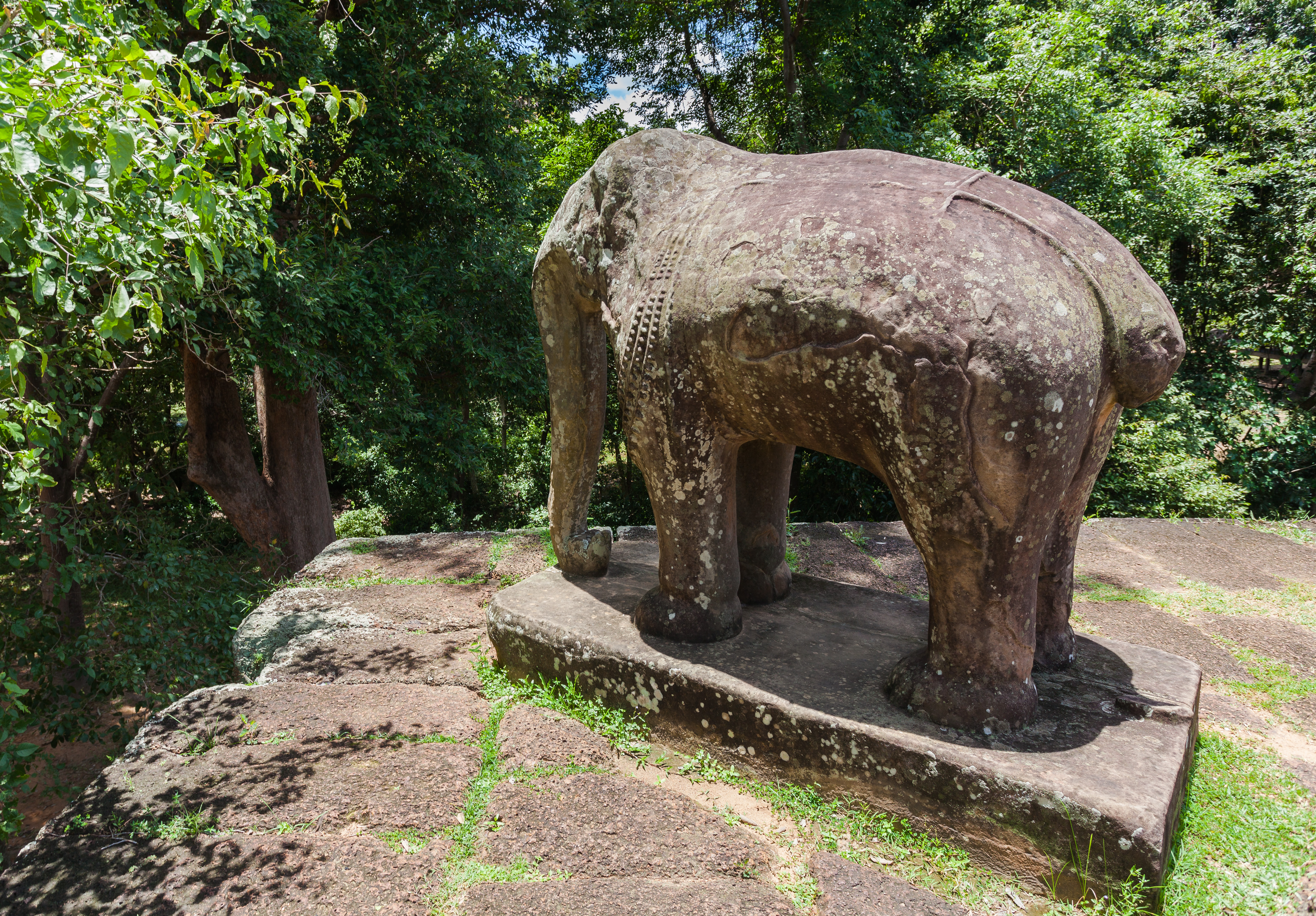 Mebon Oriental, Angkor, Cambodia